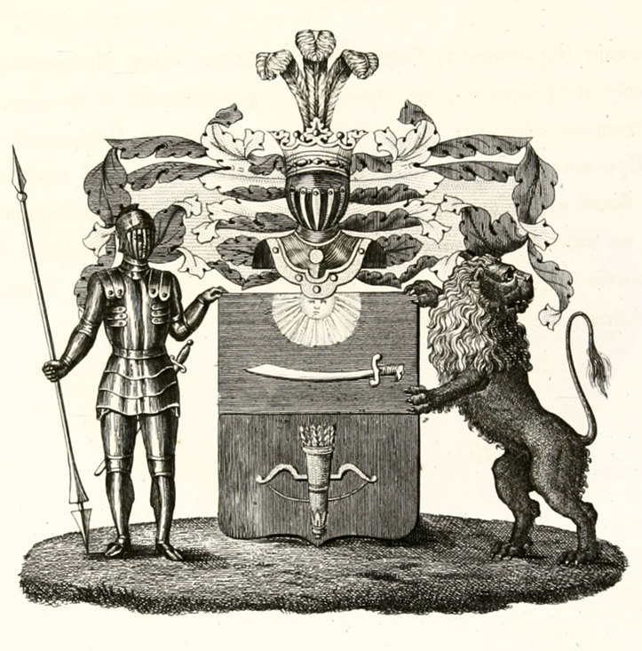 Coat of Arms of family Charykov